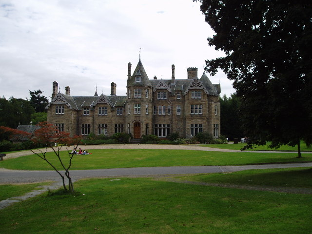 Vogrie House. This Victorian mansion lies at the heart of Vogrie Country Park. It was designed by Andrew Heiton (Perth's Town Architect) and built in 1876. It is one of the best surviving examples of Heiton's work.